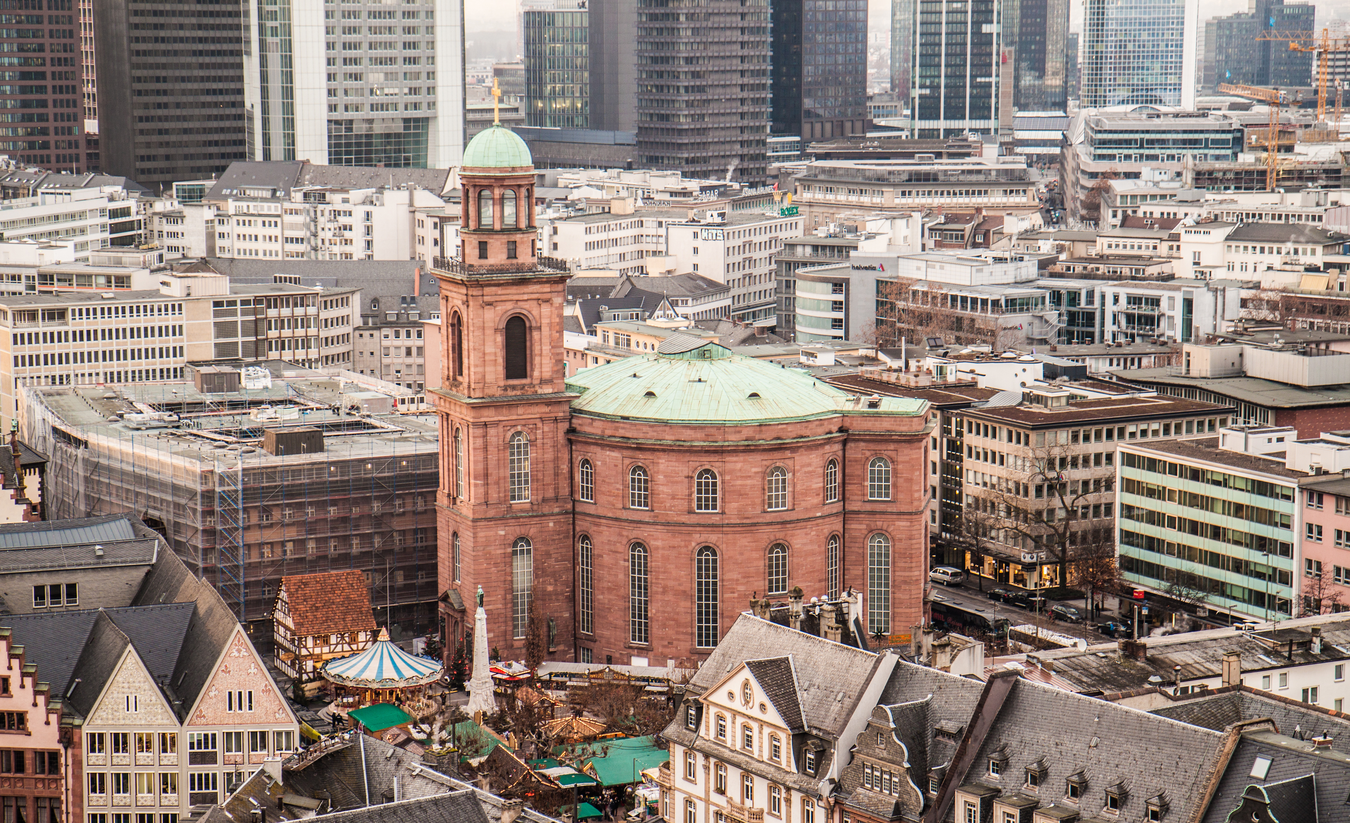 Paulskirche as seen from the viewing platform of Frankfurt Cathedral during the Christmas Markets.